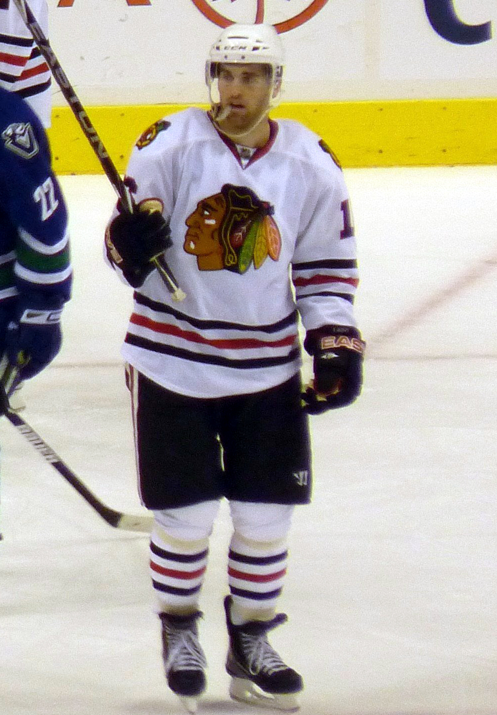 Chicago Blackhawks forward Andrew Ladd in a game against the Vancouver Canucks in Vancouver, British Columbia, on November 22, 2009.